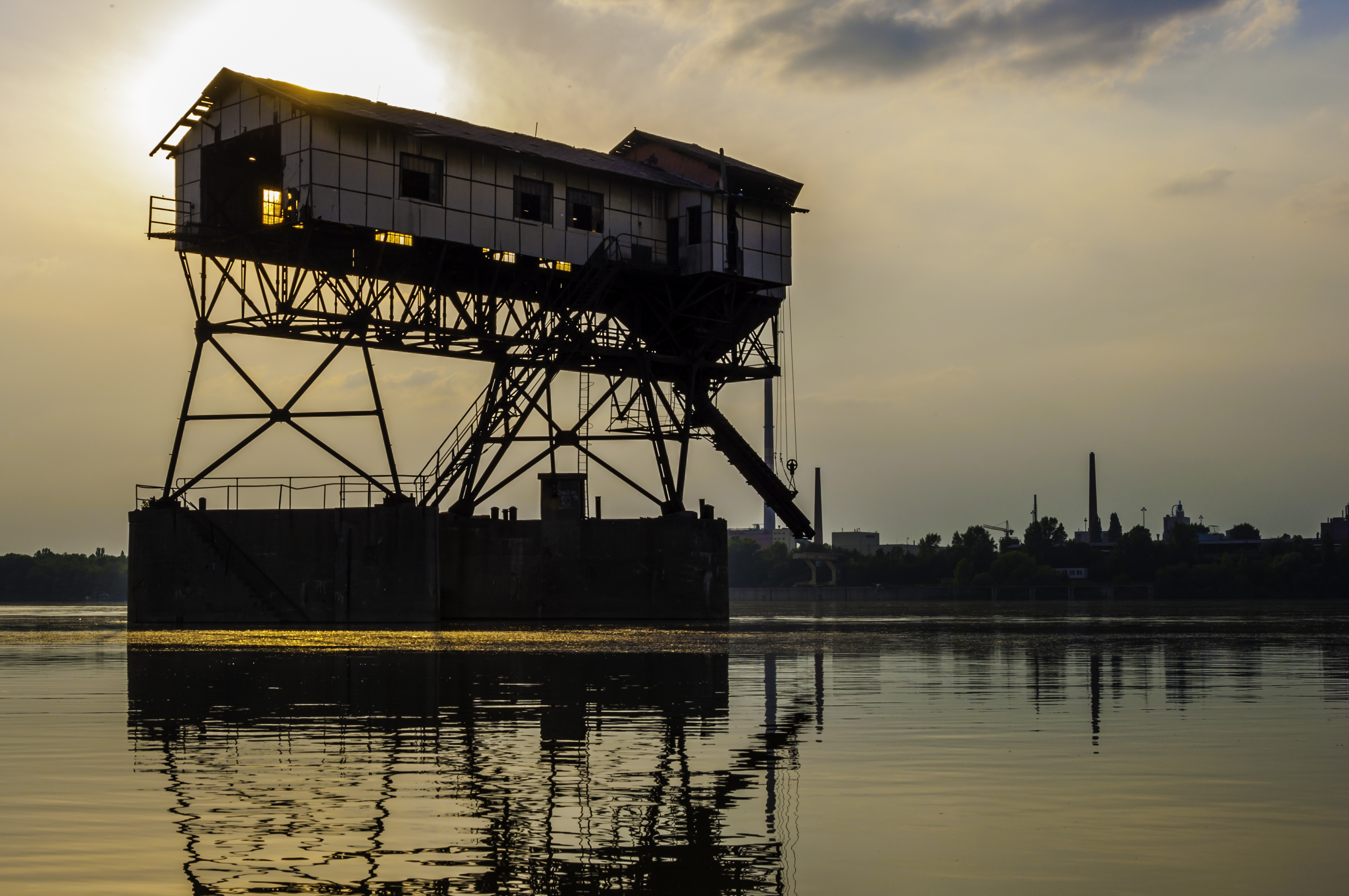 Coal Loader tower of the Danube near Esztergom, Hungary.